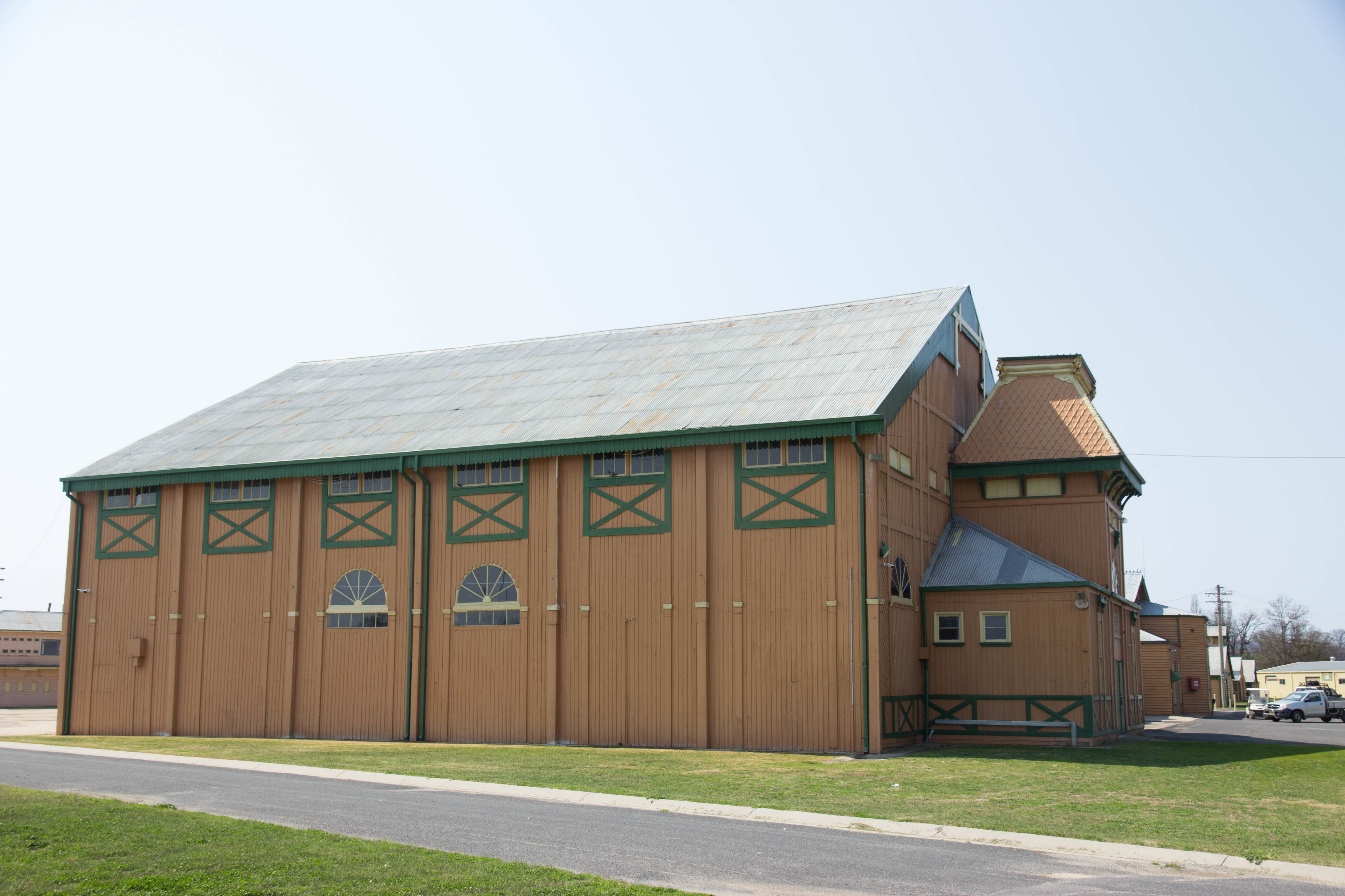 Bathurst Showground in Bathurst, New South Wales